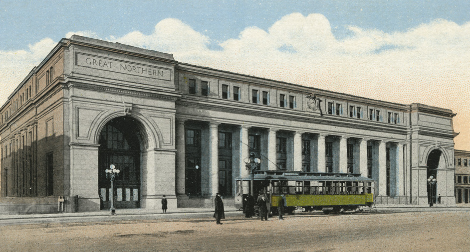 Related Work: depicts Great Northern Station [Depot], also known as Minneapolis Union Depot, designed by Charles Sumner Frost (American architect, 1856-1931) built 1913. Building was demolished in 1978. Work_Description: No. 3179; published by Bloom Bros. Co., Minneapolis. Culture: American Date: ca. 1923 Measurement Display: Subject Display: Railroad stations Classification: Graphic Design and Illustration Work type: postcards Location Notes: Collection of Philip Larson and Ursula A. Larson, Minneapolis Rights: Work in the public domain Image_Filename: 11100807 WorkID: 16780 [depicts work 16623]